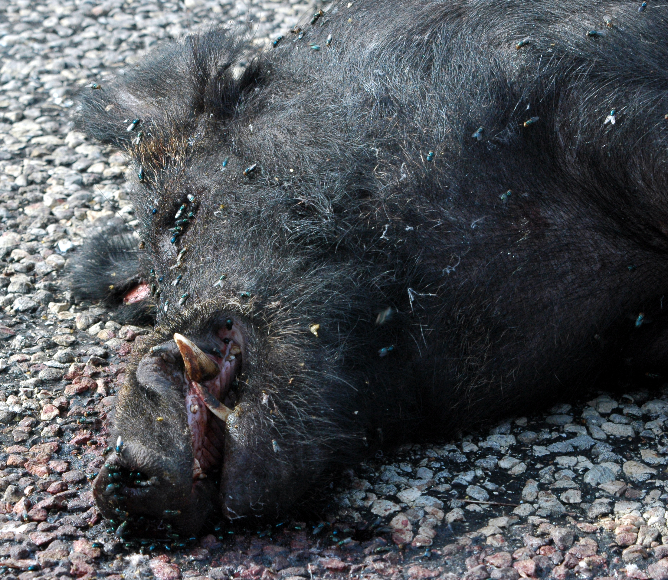 Road kill driving from Rocksprings back into Brackettville on Ranch Road 674.